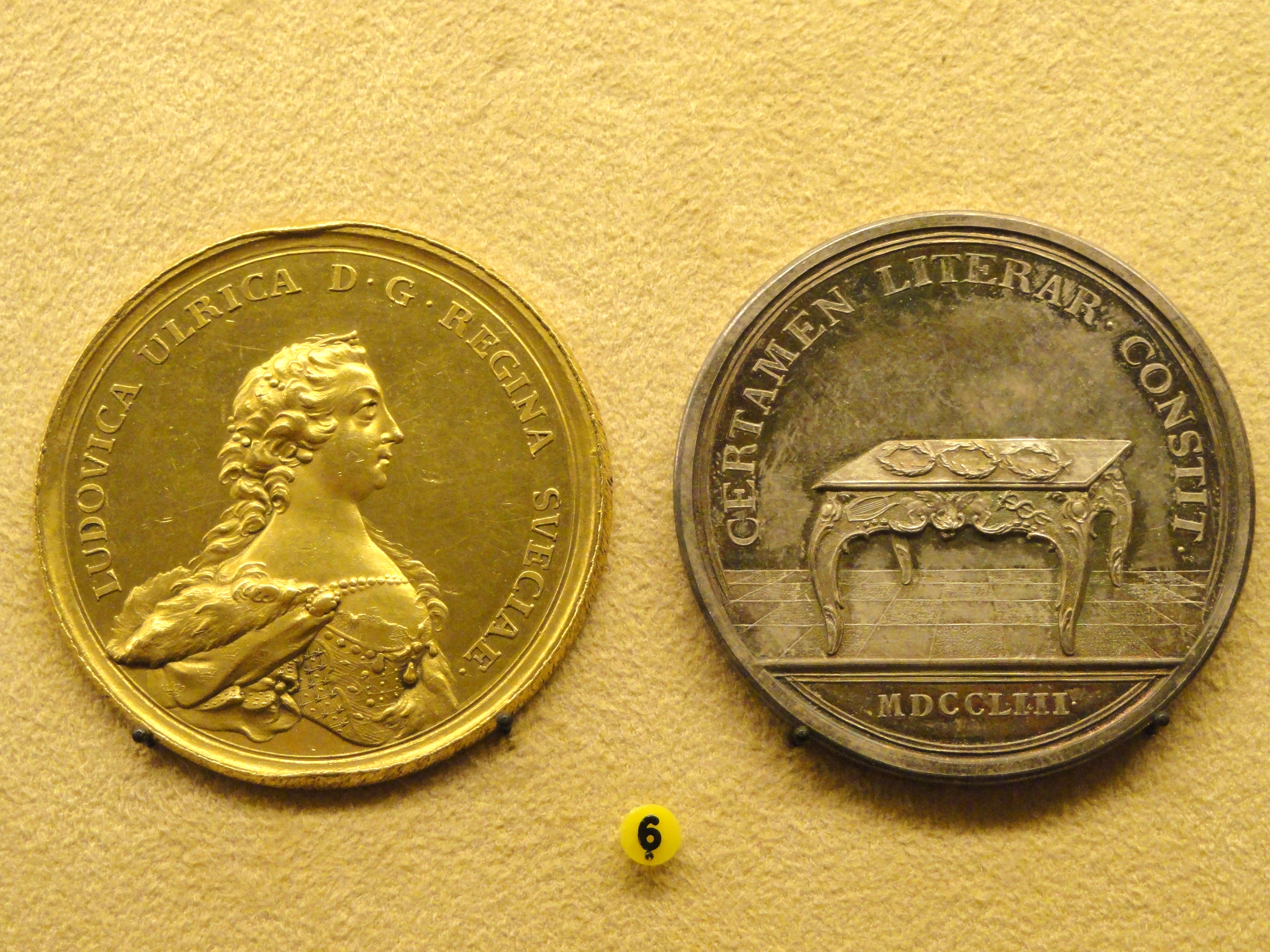 Coin / medal in the National Museum of Finland, Helsinki, Finland. This artwork is in the public domain because the artist(s) died more than 70 years ago.